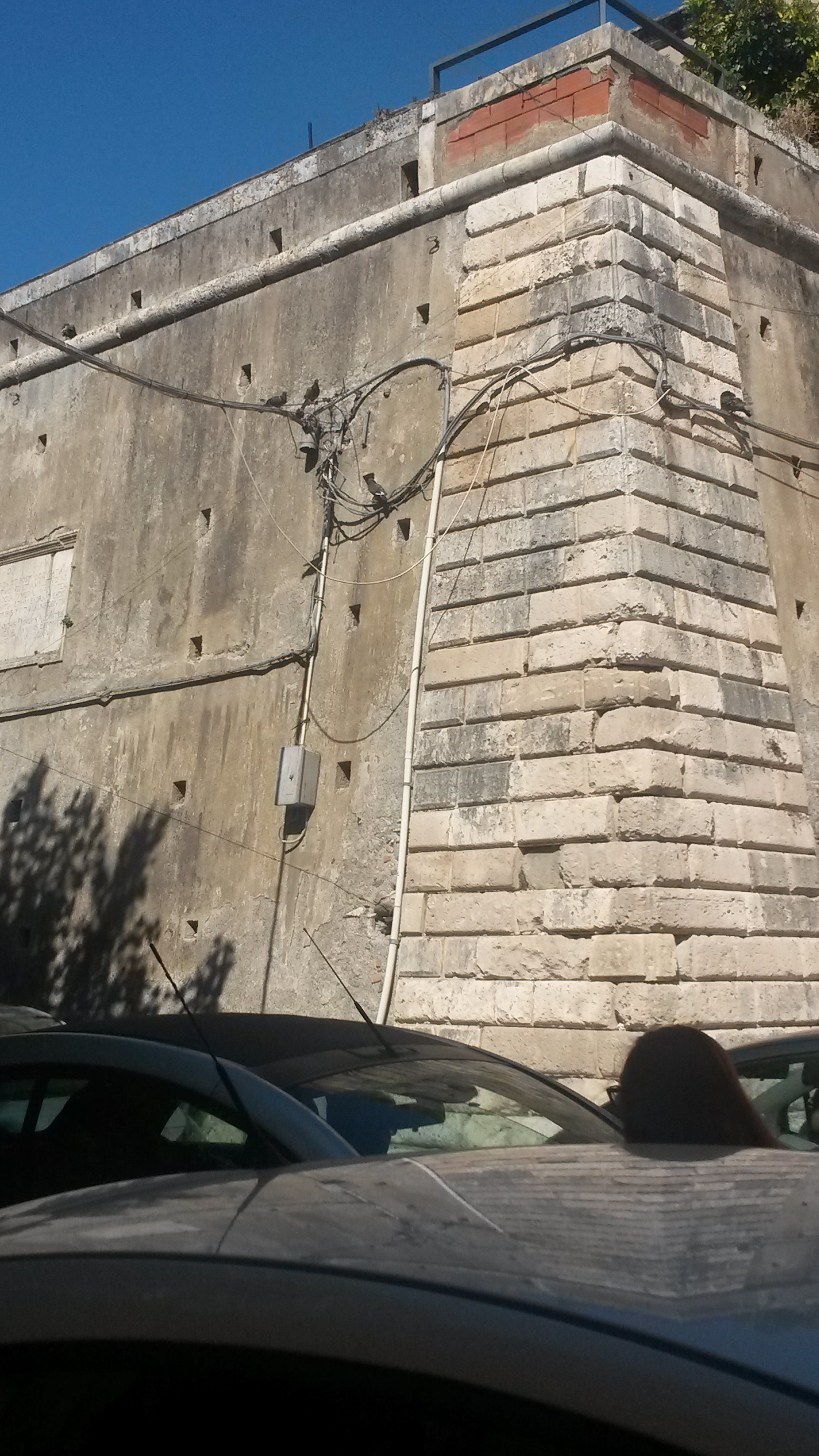 Rests of the Castle.